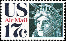 July 13, 1971 / 17¢ Red, Green & Black / Statue of Liberty / C8033096